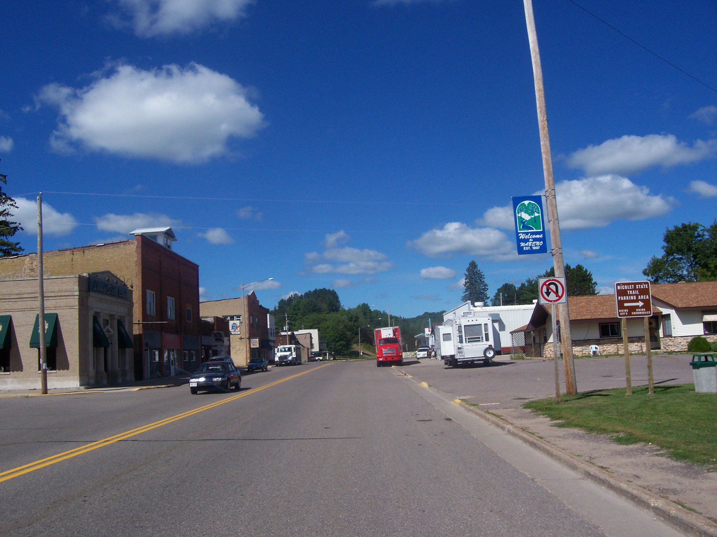 Looking west at downtown Wabeno, Wisconsin on Wisconsin Highway 32.